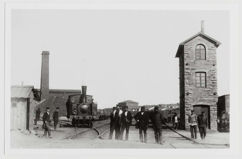 Locomotive yard at works, Hughesovka